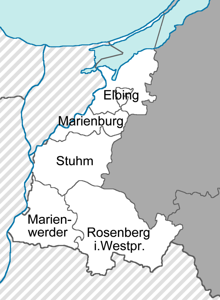 Map of Counties of Regierungsbezirk Westpreußen 1939